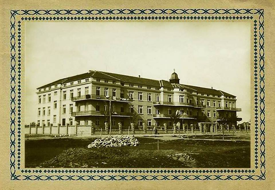 The Catholic hospital in Plovdiv